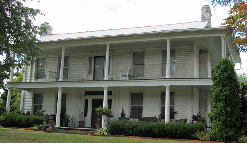 The George Short House, constructed at 121 North Main Street in Greenville, Kentucky, in 1840. It is listed on the National Register of Historic Places.